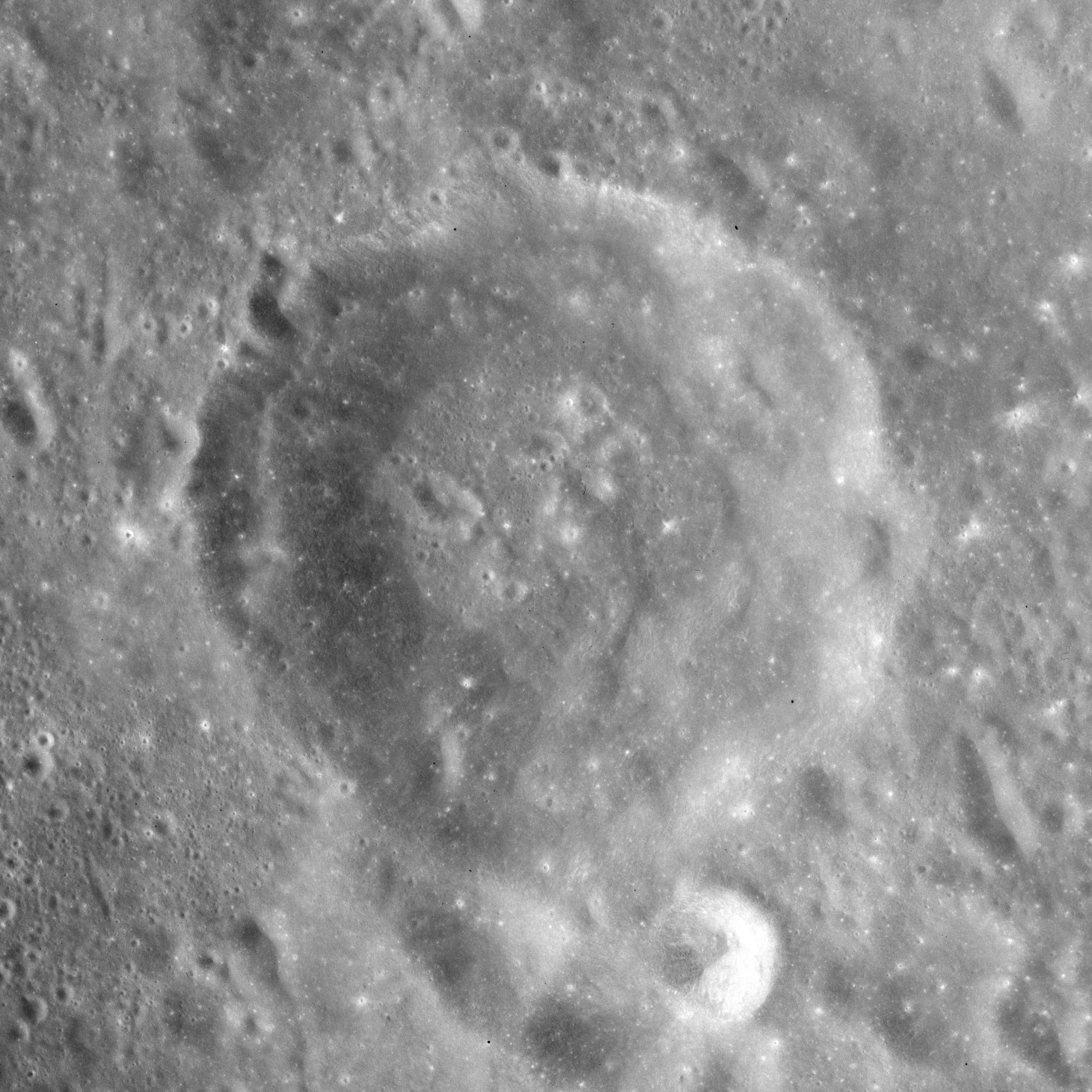 Ganskiy, on the far side of the moon. Camera Altitude is 120 km, Sun Elevation is 52°.